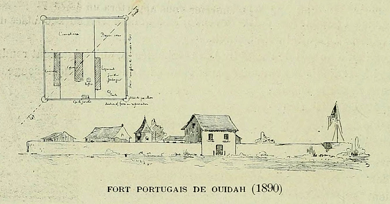 Front and top views of the Portuguese Fort of São João Baptista de Ajudá in 1890. Published in La marine au Dahomey : campagne de "La Naiade" (1890–1892) by A. de Salinis in 1901. The book is a contemporary account of a French naval squadron's involvement in the events leading to the Second Franco-Dahomean War of 1892–1894.